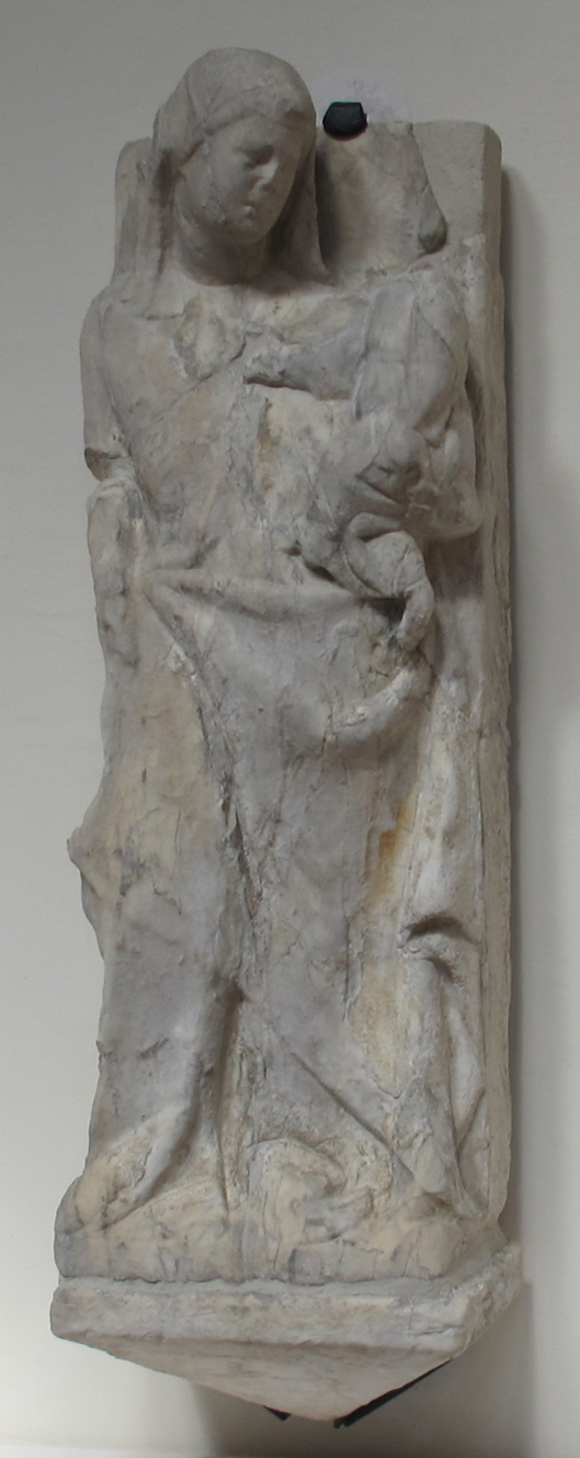 Sculpture in the National Pinacotheque, Siena